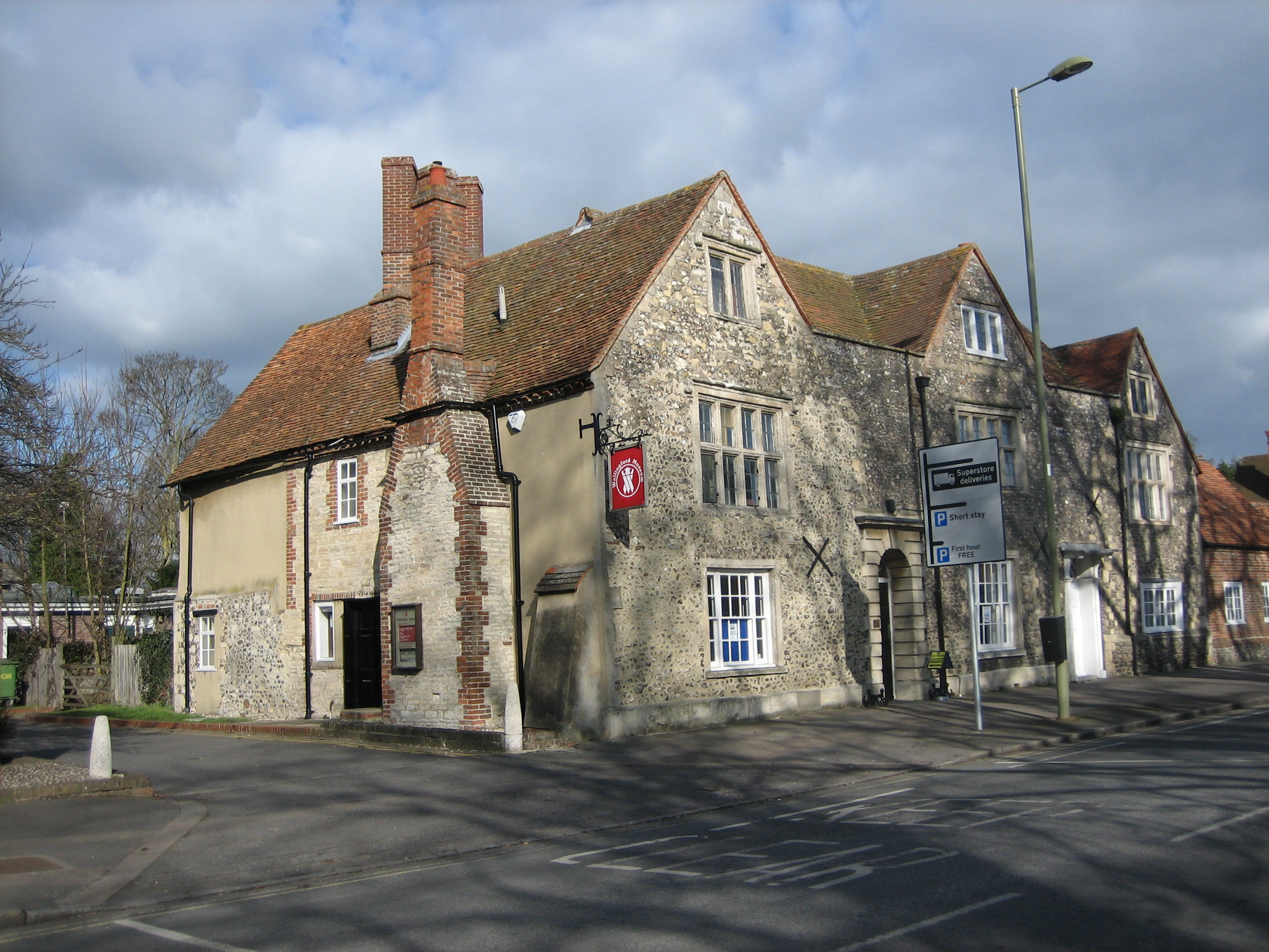 Flint House, 52 High Street, Wallingford, England: a 16th-century building that houses Wallingford Museum.